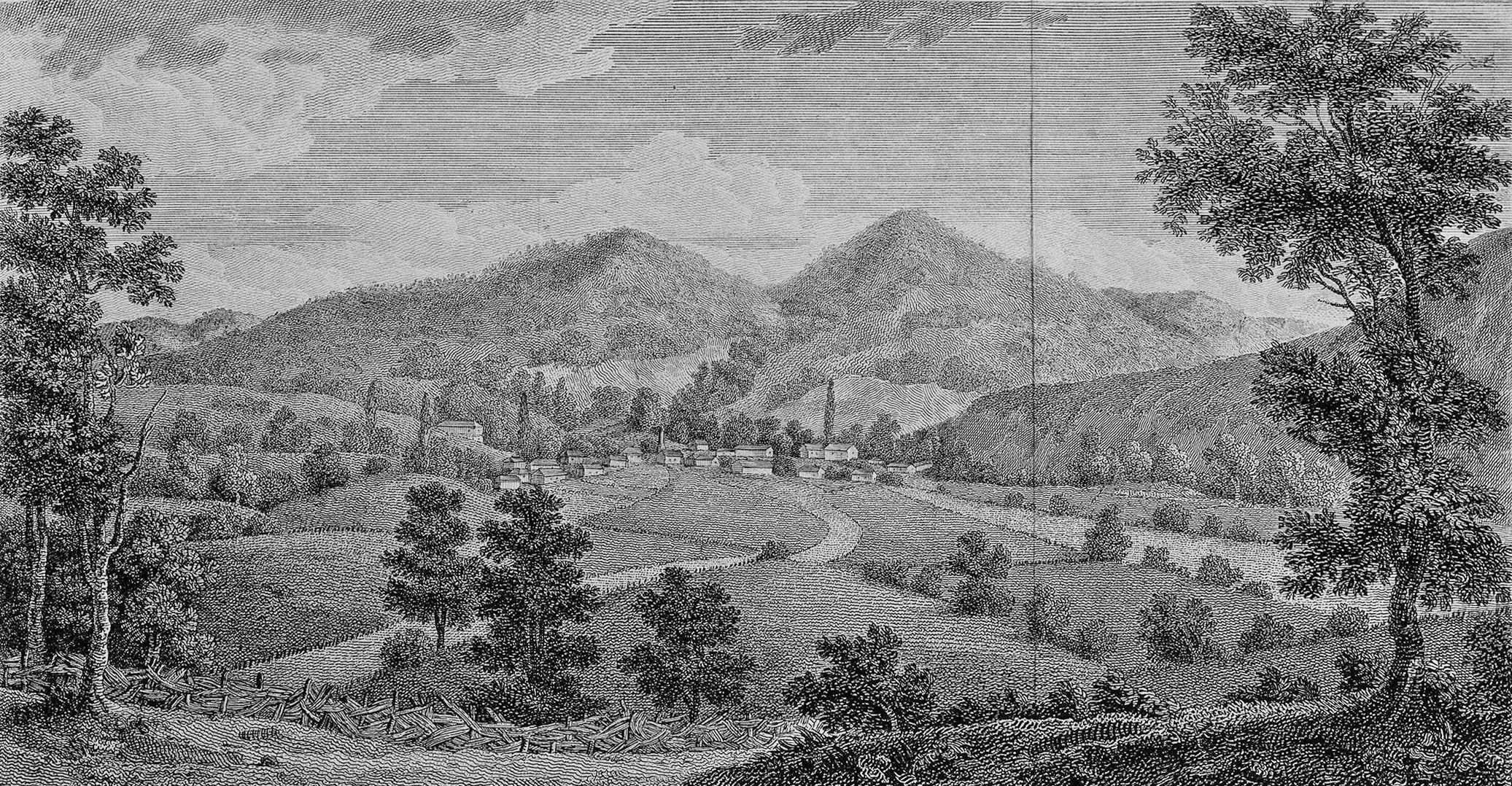 Muskomja 1805. The second sheet of the album to the second part of the publication P.I.Sumarokova "Leisures Crimean judge or a second trip in Tauris"